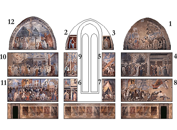 Location of the frescos by Piero della Francesca in the Basilica di San Francesco in Arezzo (Italy).